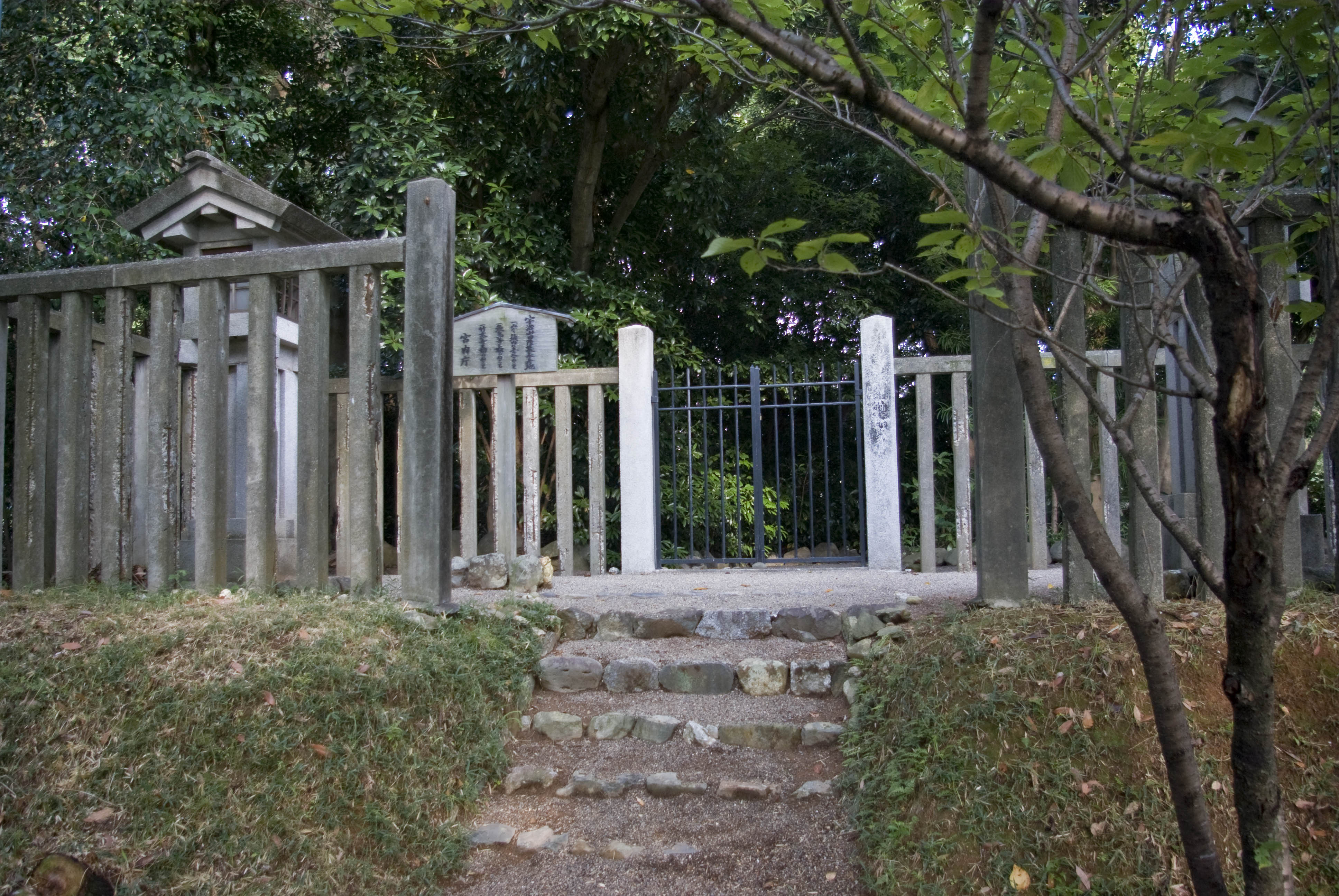 the place proposed for the legendary burial ground of Yamatohime-no-mikoto (倭姫命) designated by the Imperial Household Agency.